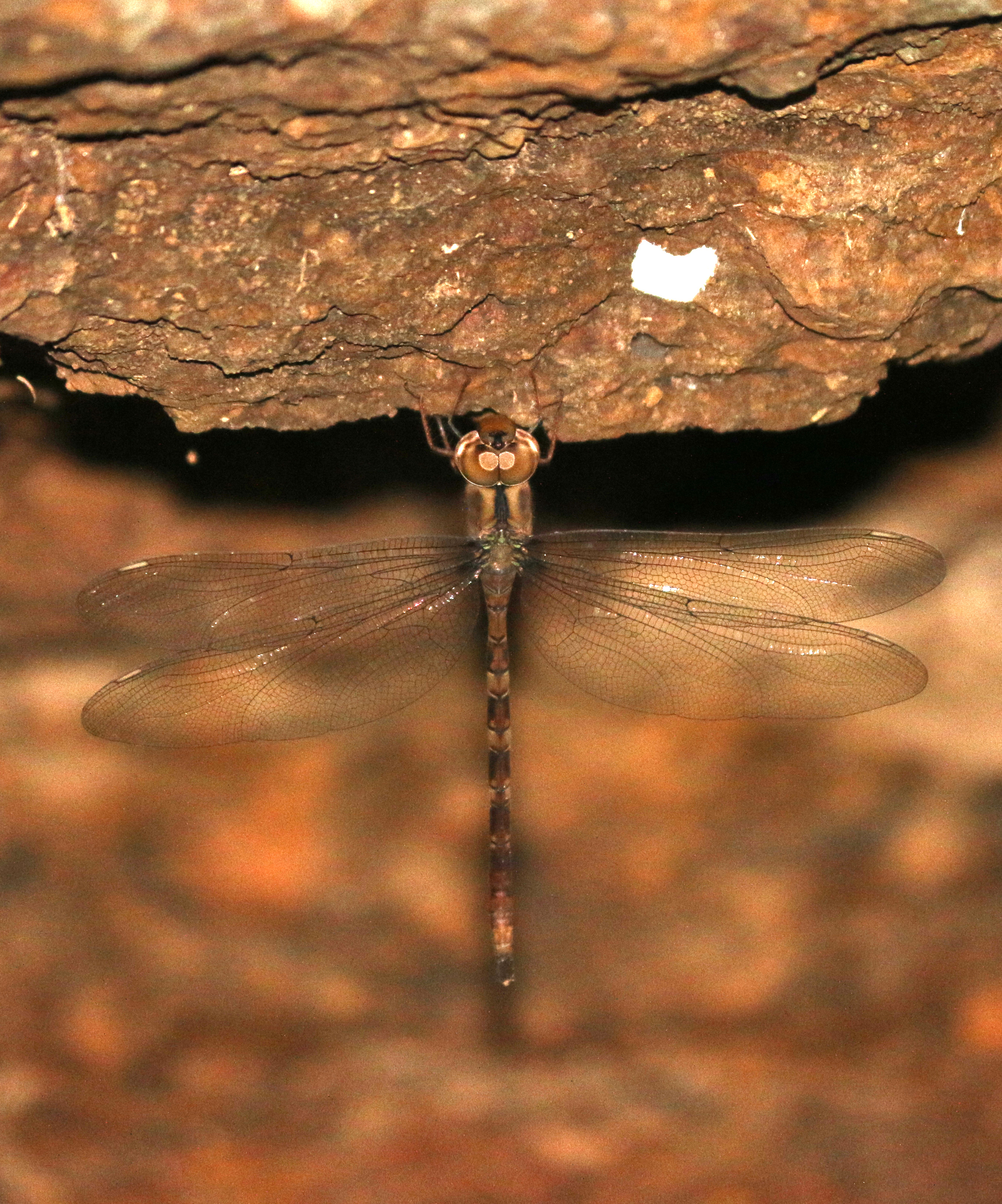 Gynacantha dravida Brown Darner